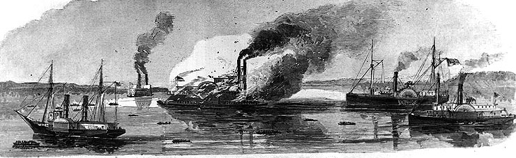 Destruction of the 'Queen of the West' by Union Gun-Boats Line engraving published in "Harper's Weekly", 1863, depicting CSS Queen of the West being destroyed in Grand Lake, Louisiana, during an attack by USS Estrella (extreme left), Calhoun (extreme right) and Arizona (second from right), 14 April 1863. Photo #: NH 58759